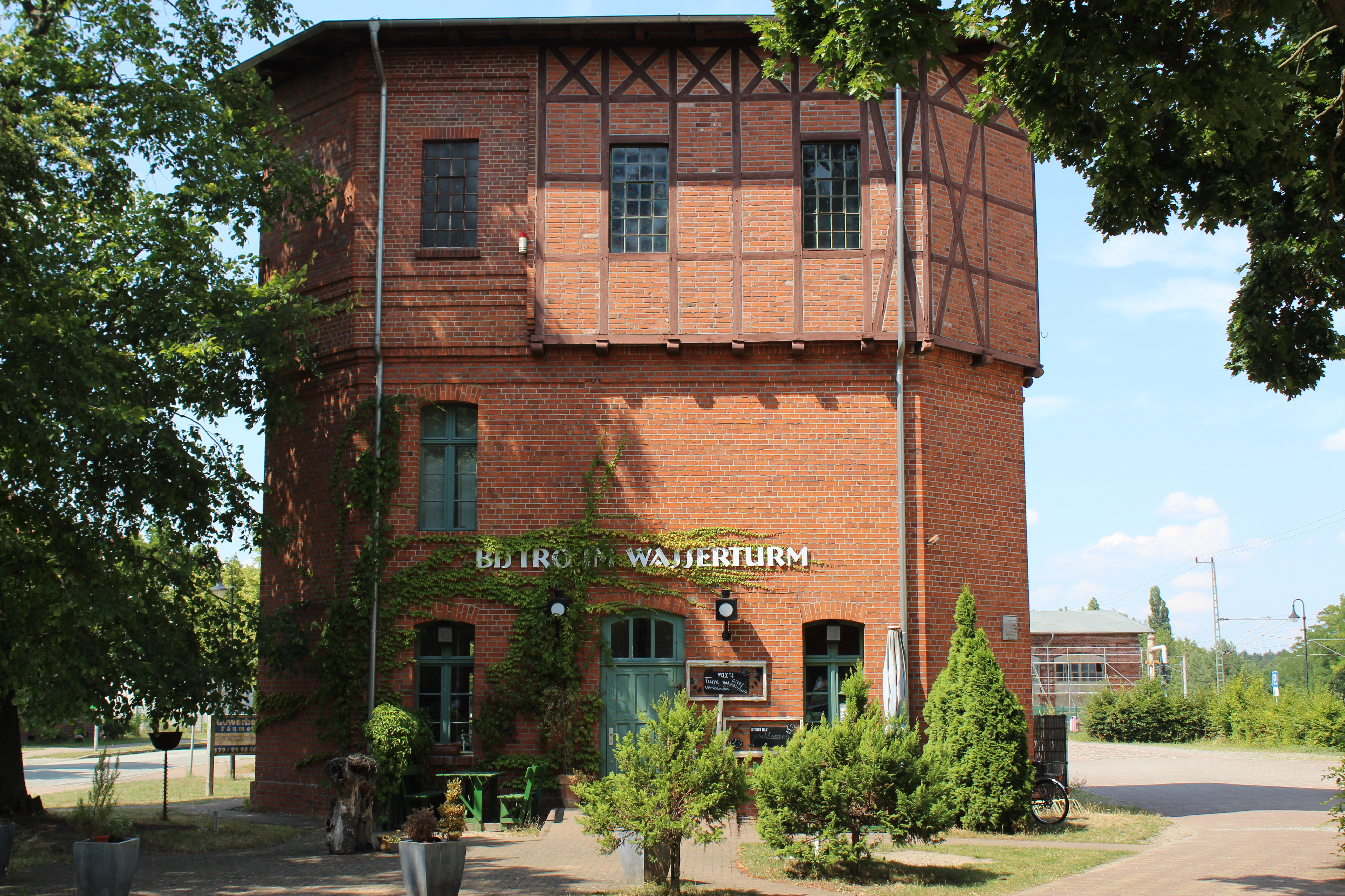 train station Neustadt (Dosse), small water tower